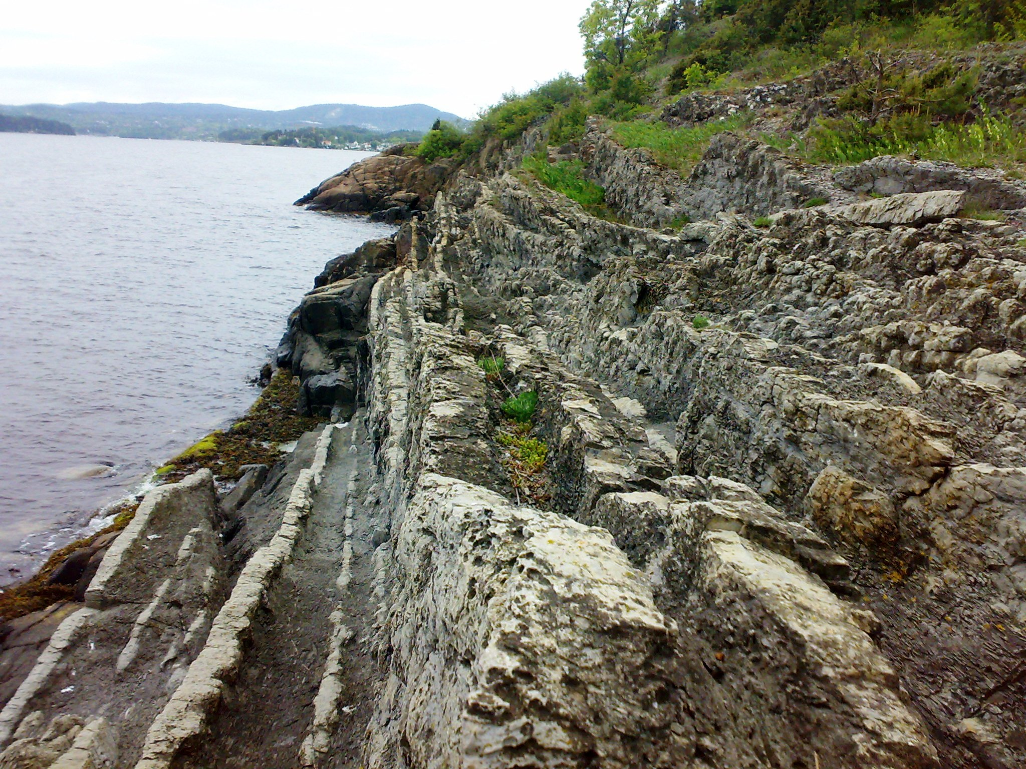 Cambro-silurian layers of oceanic sediments, Langaara island (Bärum, Norway). Part of the Oslo Graben area. Chalconite, sand and shale stone. Less than 260 mio years old.